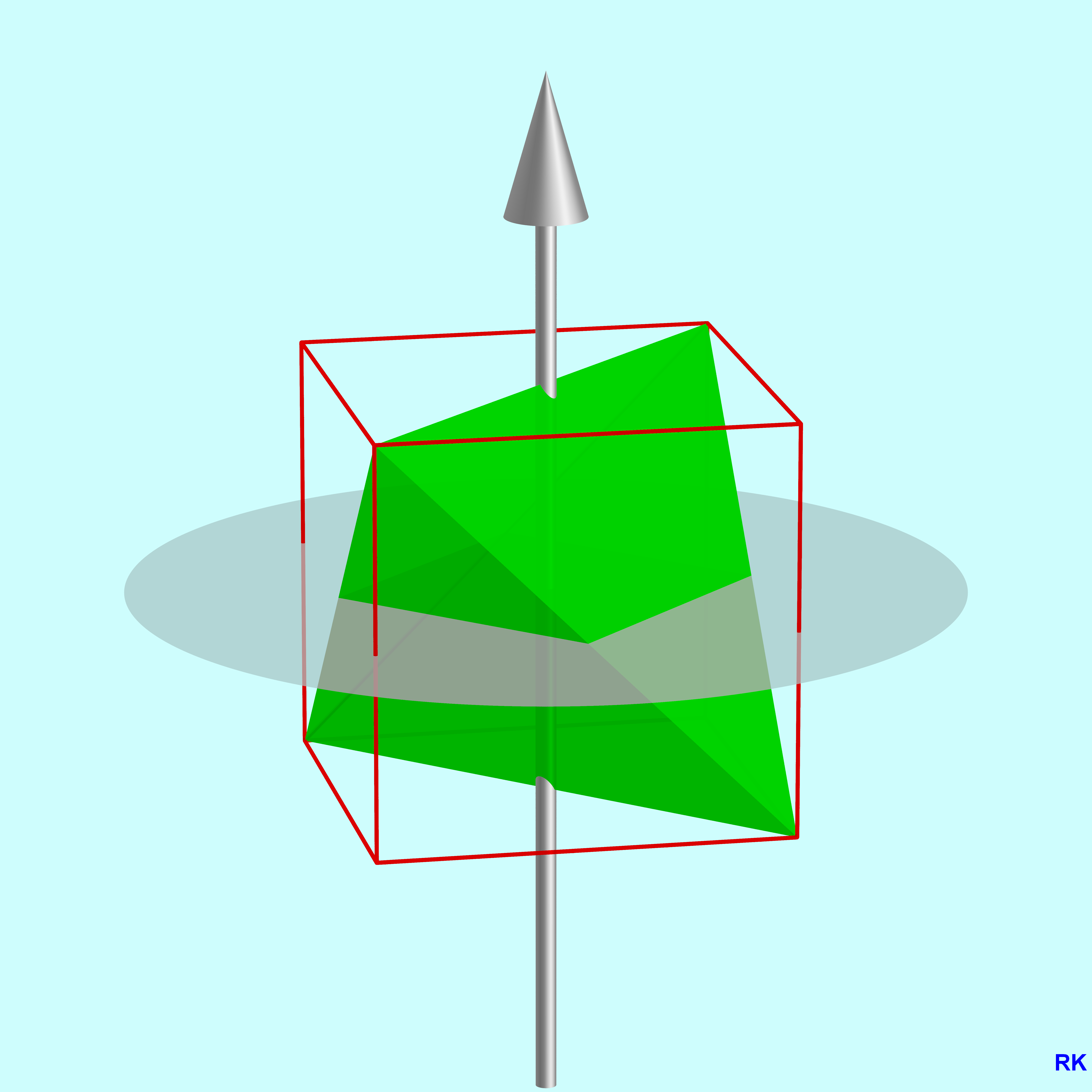 One of three 4-fold rotation-reflection symmetry axis with rotation-reflection plane of a homogeneous tetrahedron.